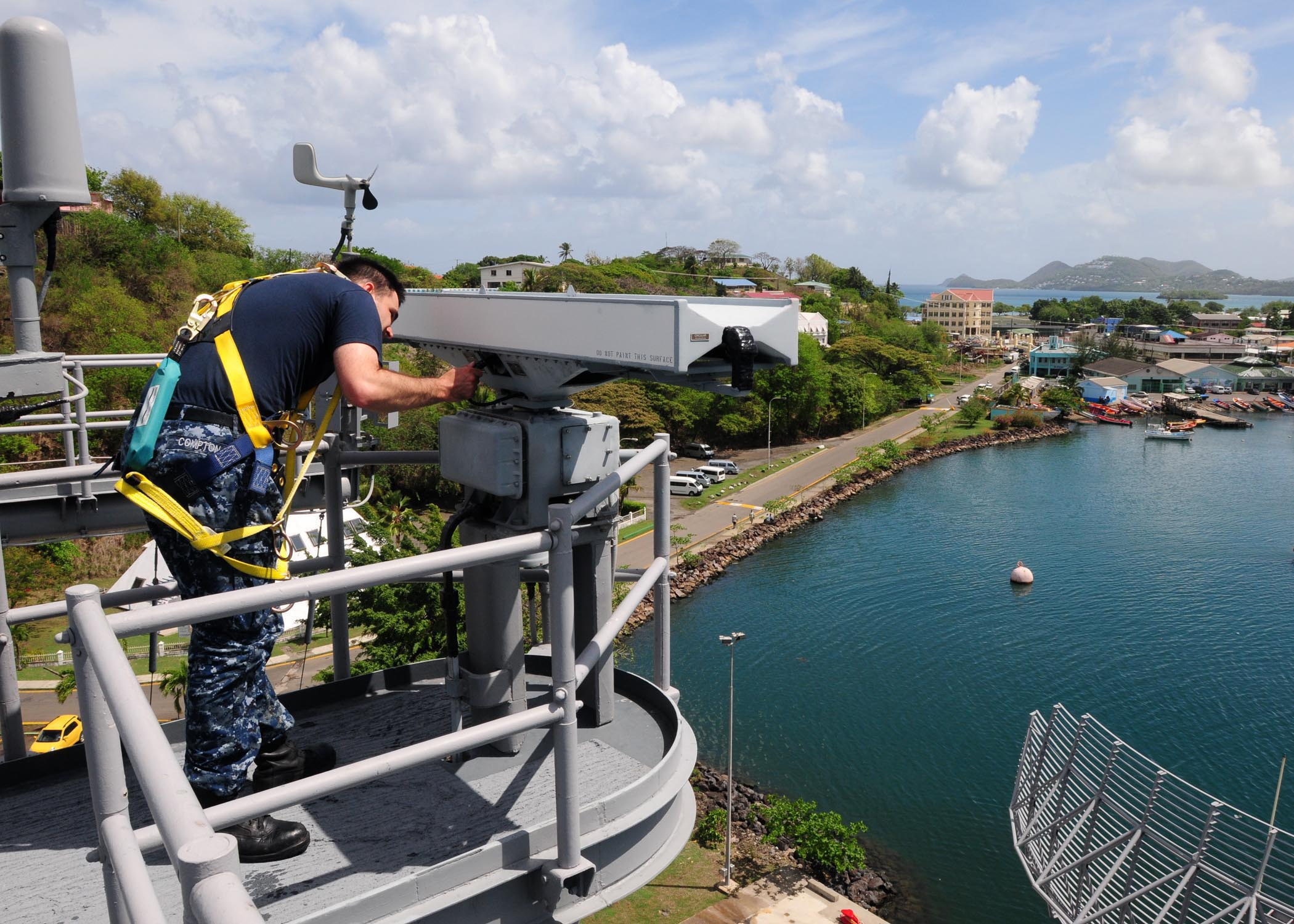 CARIBBEAN, St. Lucia (April 12, 2010) Electronics Technician 2nd Class Garry Compton inspects an antenna mounted on top of the mast of the guided-missile frigate USS Klakring (FFG 42) while pier side in St. Lucia. Klakring is on a six-month deployment to Latin America and the Caribbean as part of Southern Seas 2010, a U.S. Southern Command-directed operation that provides U.S. and international forces the opportunity to operate in a mulit-national environment.